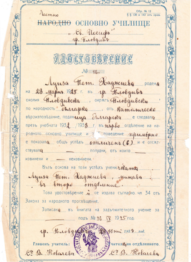 Certificate issued to Luiza Hadjieva by the St. Joseph Primary School in Plovdiv in 1933